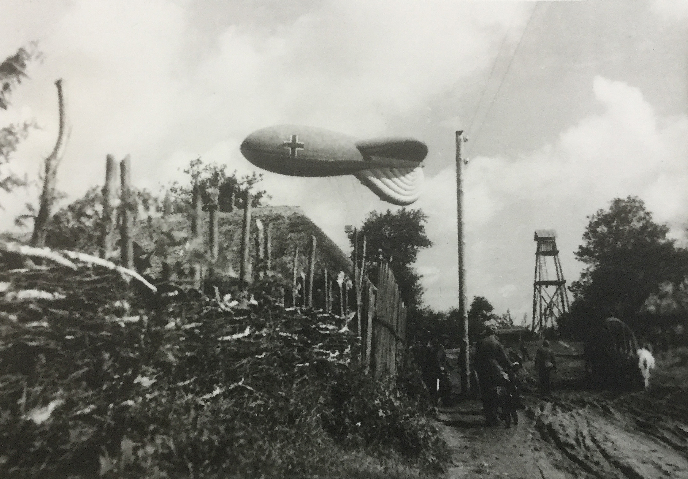 Original text (photo album): Nowo-Jarylowitschi, south of Gomel. 28.8-1.9.41 / The runway south of Gomel is fiercely contested. Our artillery has placed its observer in the "inflated Gustav".